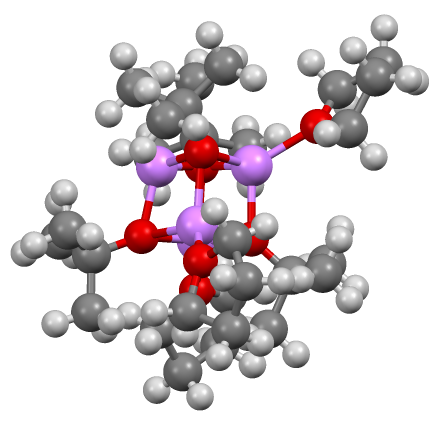 Structure of Li4(OBu-t)4(thf)3 cluster from doi 10.1002/anie.201306884.